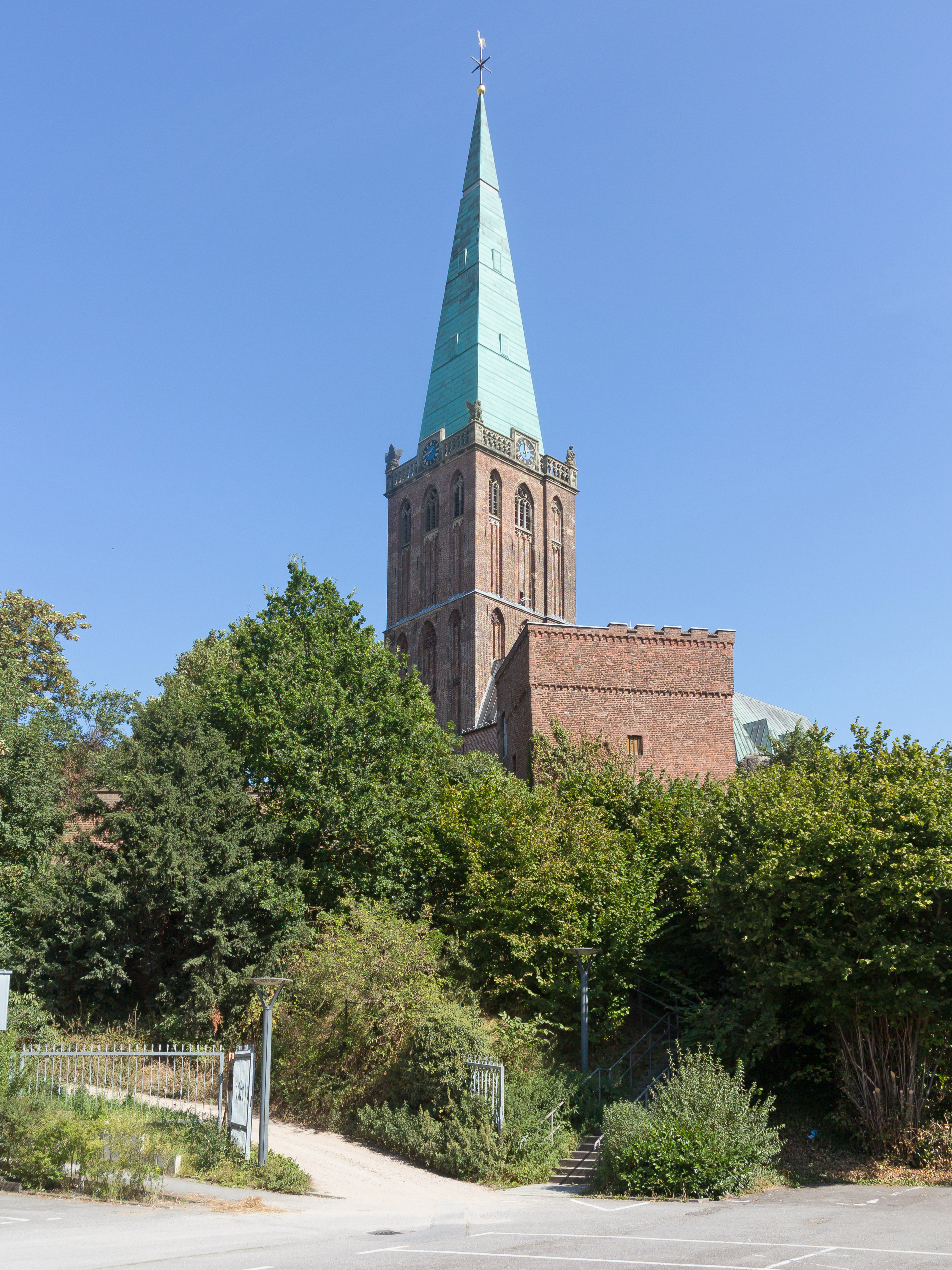 Heinsberg, church - ehemalige Stiftskirche Sankt GangolfusThis is a photograph of an architectural monument., no. 20